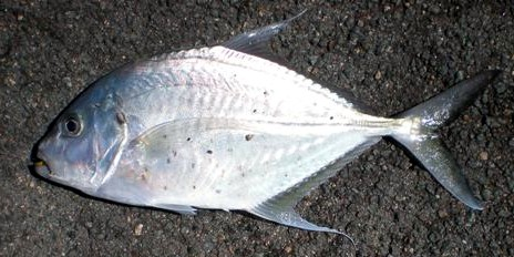 Caught in Weipa Qld